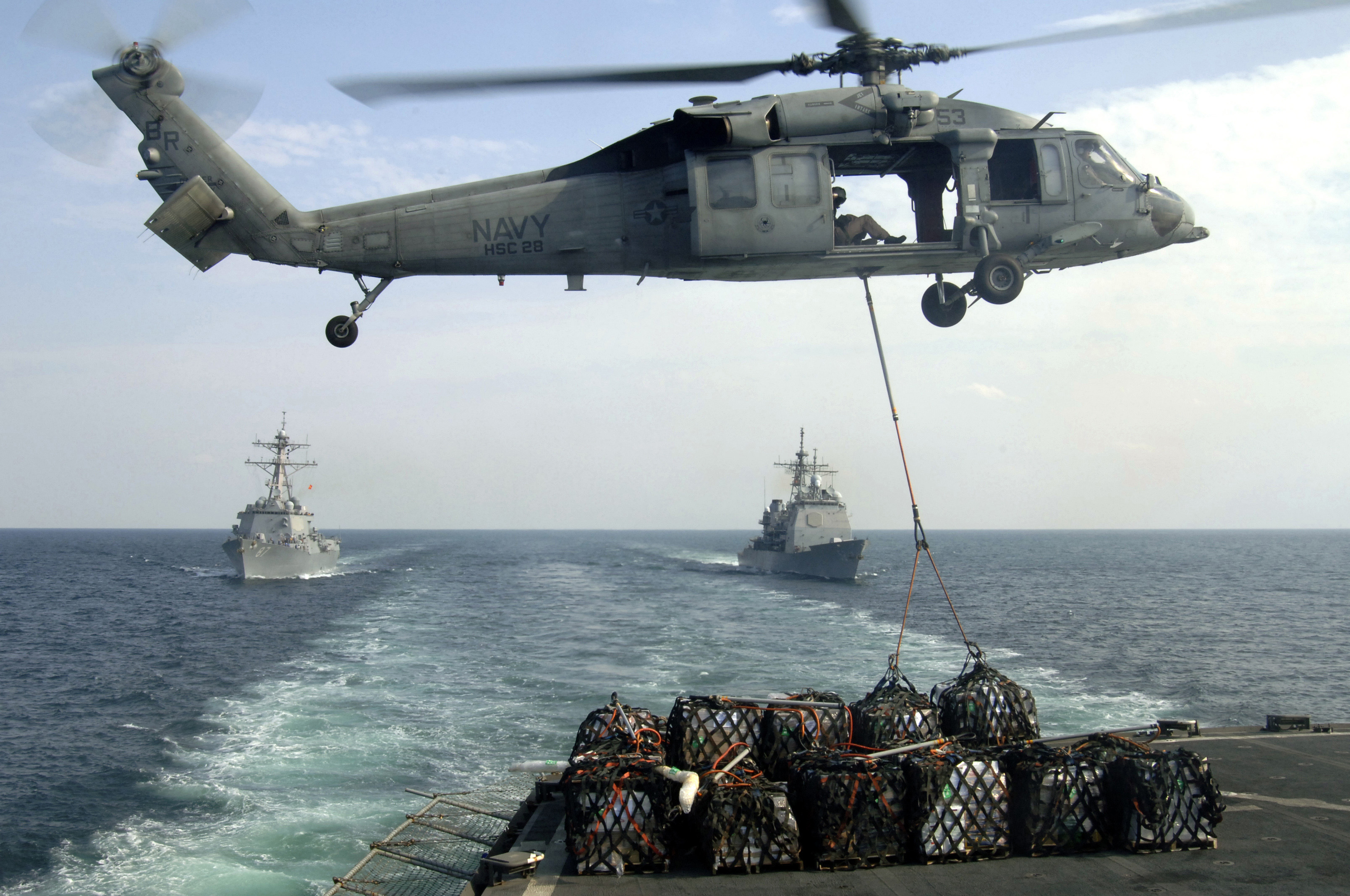 A MH-60S Nighthawk helicopter lifts cargo nets of supplies from the stern of the USNS Supply (T-AOE 6) during a vertical replenishment in the Arabian Sea on Nov. 20, 2006. The cargo will be delivered by air to the ships steaming behind the Supply as the ships conduct maritime security operations in the Arabian Sea. The Nighthawk is attached to Helicopter Sea Combat Squadron 28.